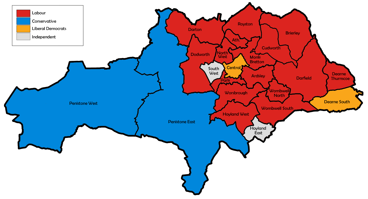 Ward map of Barnsley council with political colouring for the 2003 election.